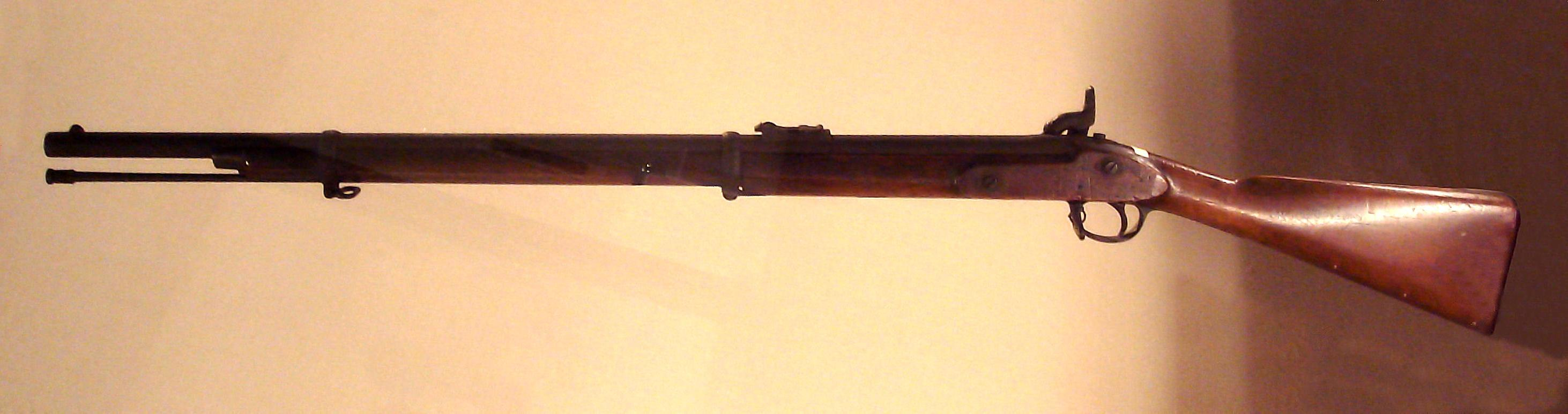 Similar to another image but swapped it so the hammer and lockplate are on the right side.